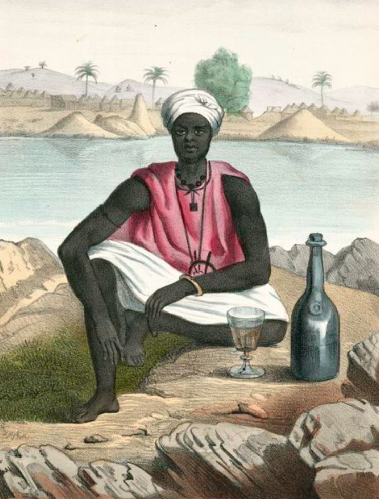 Drinking Schnapps